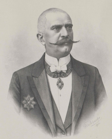 Alfred Ebenhoch (1855–1912), Catholic politician of the Christian Social Party, Governor of Upper Austria (1895–1907), Minister of Agriculture (1907–1908).(Lithography by ?. Prochazka, 1908.